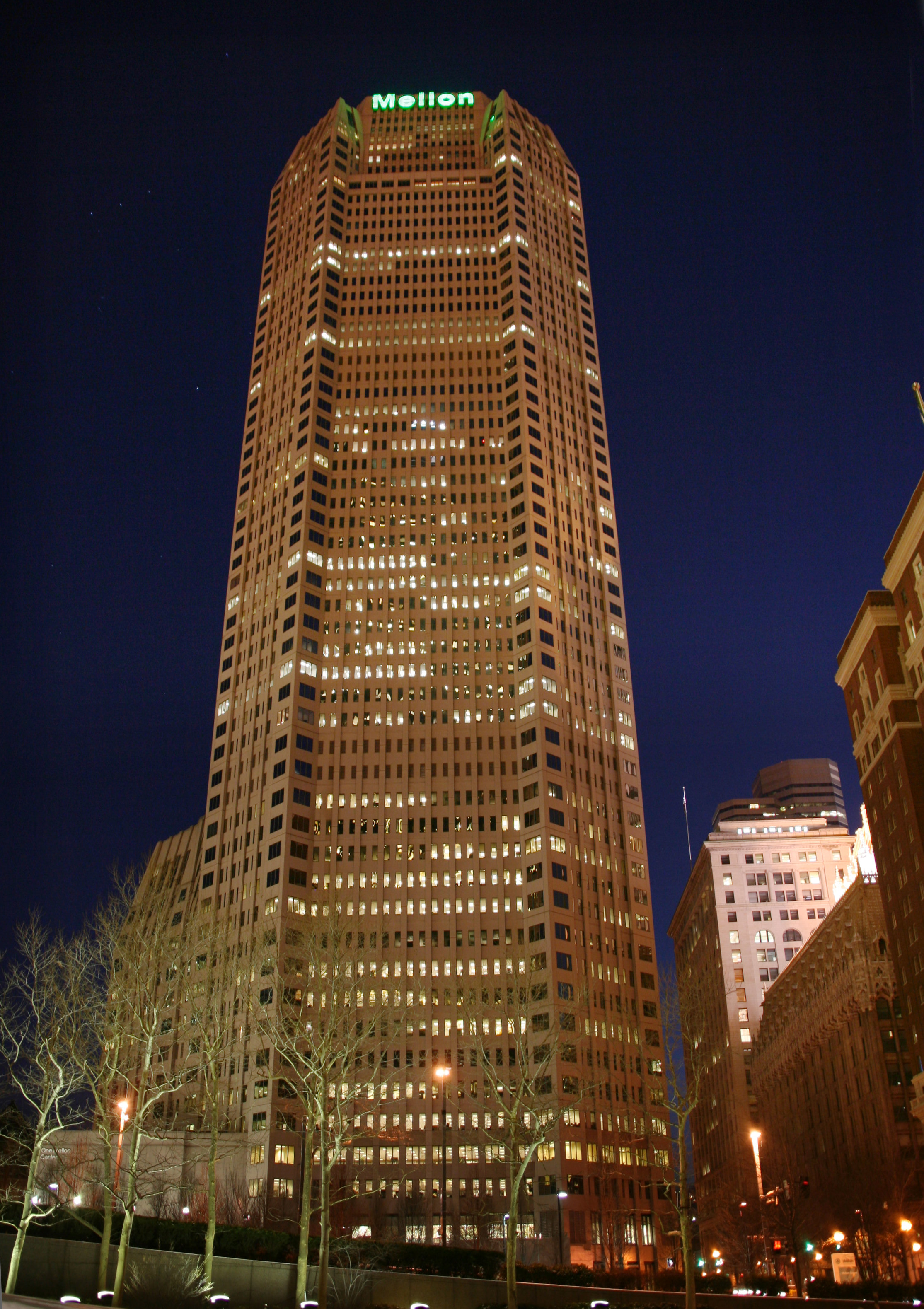 One Mellon Center in downtown Pittsburgh, Pennsylvania.